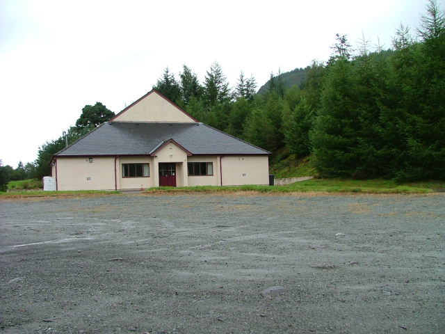 Inverinate Community Centre